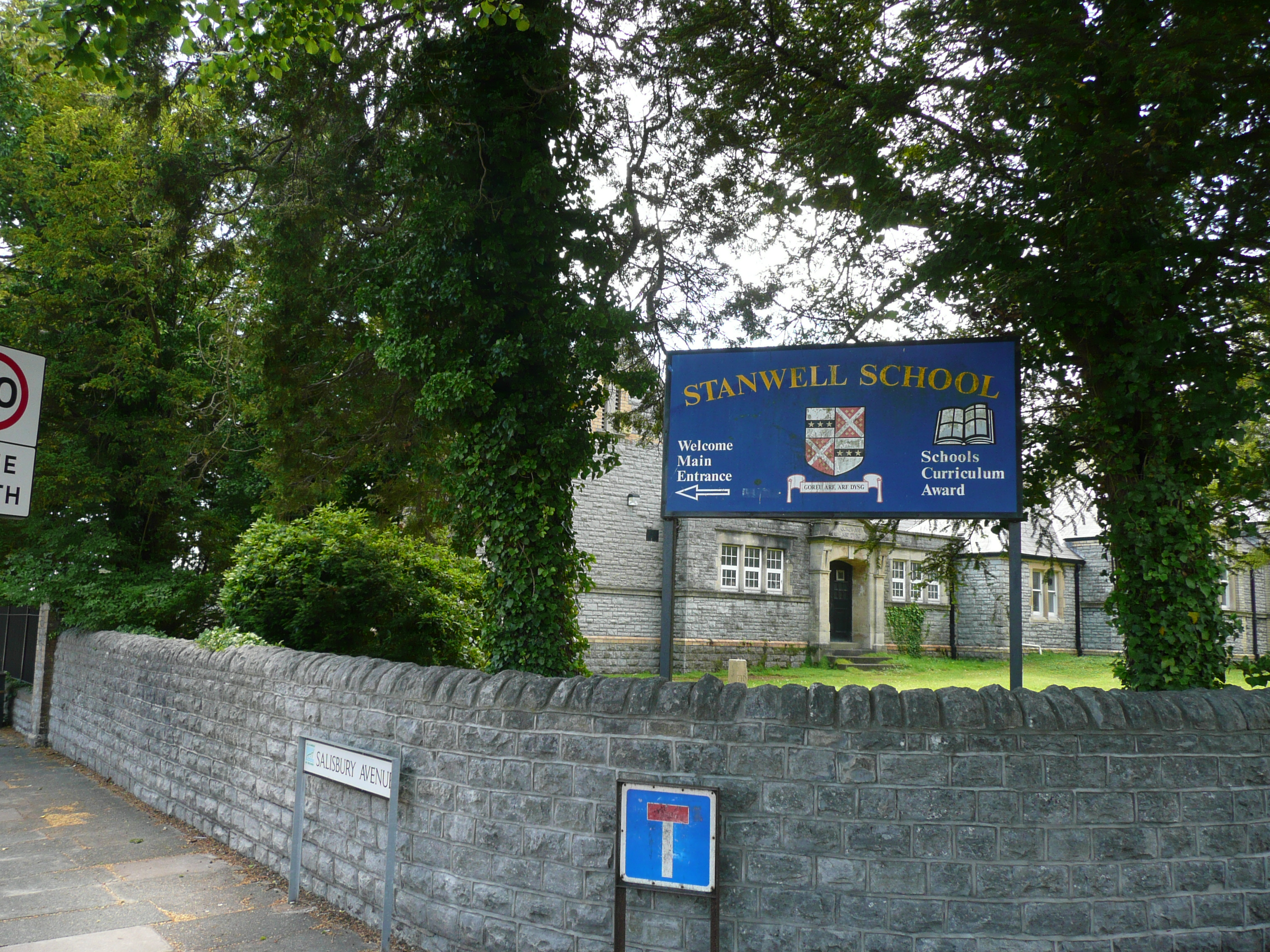 Stanwell School Penarth